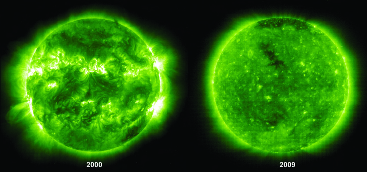 A very dynamic Sun (left) compared to a Sun deep in solar minimum (right) helps to illustrate the extremes of a solar cycle. Measured in UV light. 2000/2009